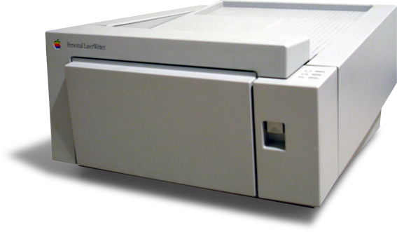 This is an image I took of my Apple Personal LaserWriter NTR.